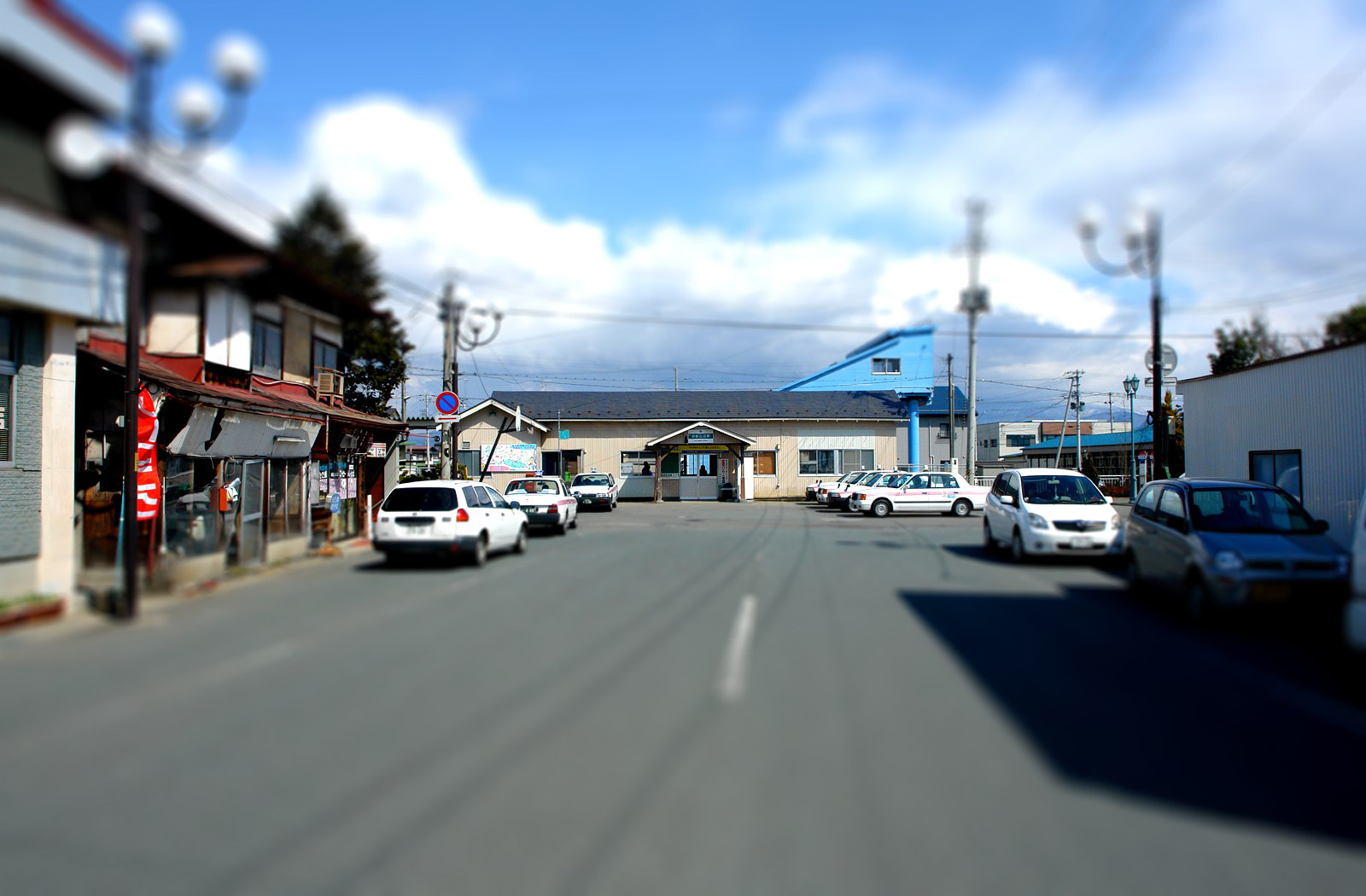 Uzen-Yamabe Station